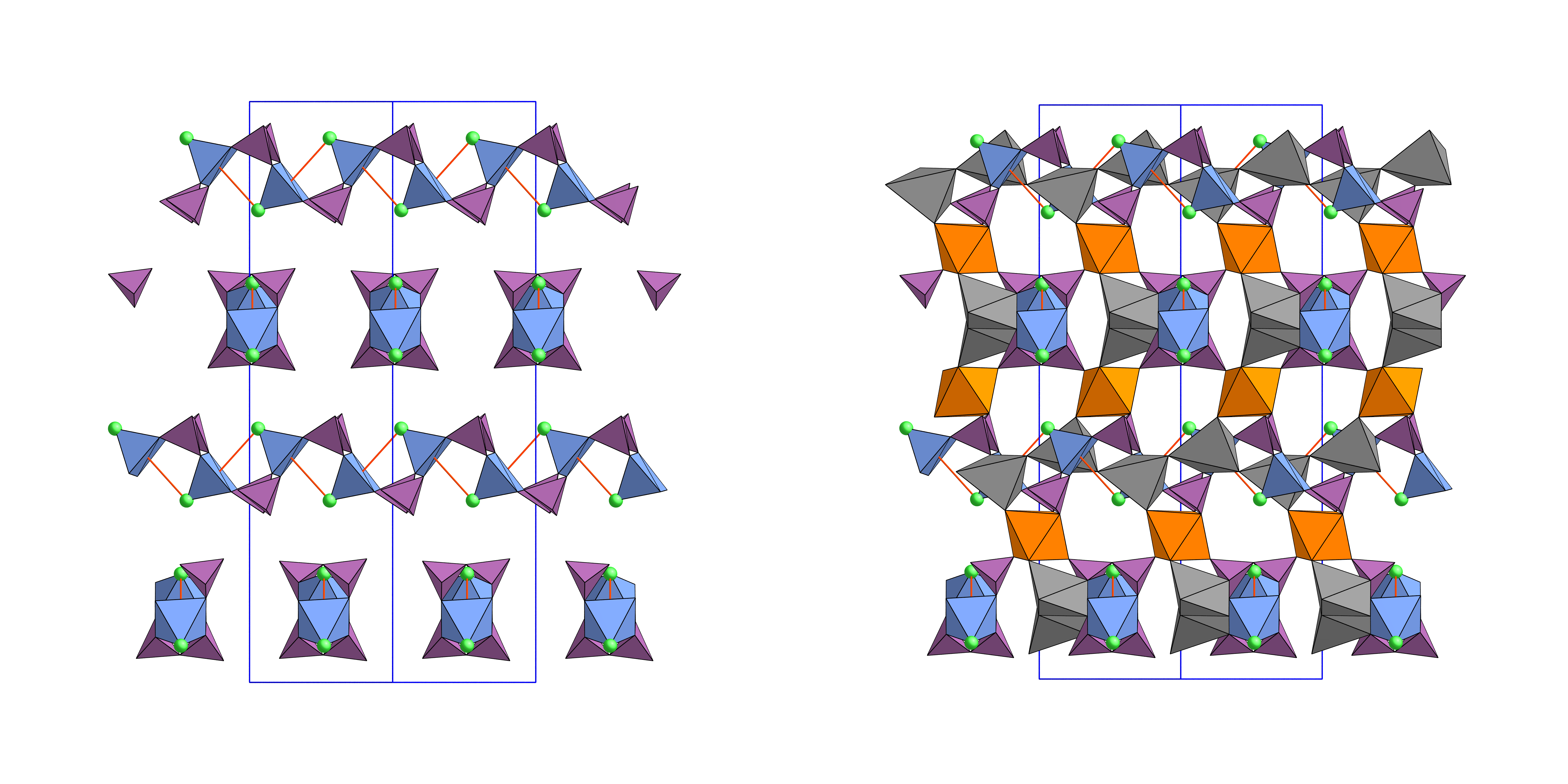 Data from: Roland C. Rouse, Donald R. Peacor, Robert L. Freed (1988): Pyrophosphate groups in the structure of canaphite, CaNa2P2O7.4H2O: The first occurrence of a condensed phosphate as a mineral, American Mineralogist 73, pp. 168-171 Image calculation: Larry W. Finger, Martin Kroeker, and Brian H. Toby, DRAWxtl, an open-source computer program to produce crystal-structure drawings, J. Applied Crystallography V40, pp. 188-192, 2007 Rendering: POVRAY